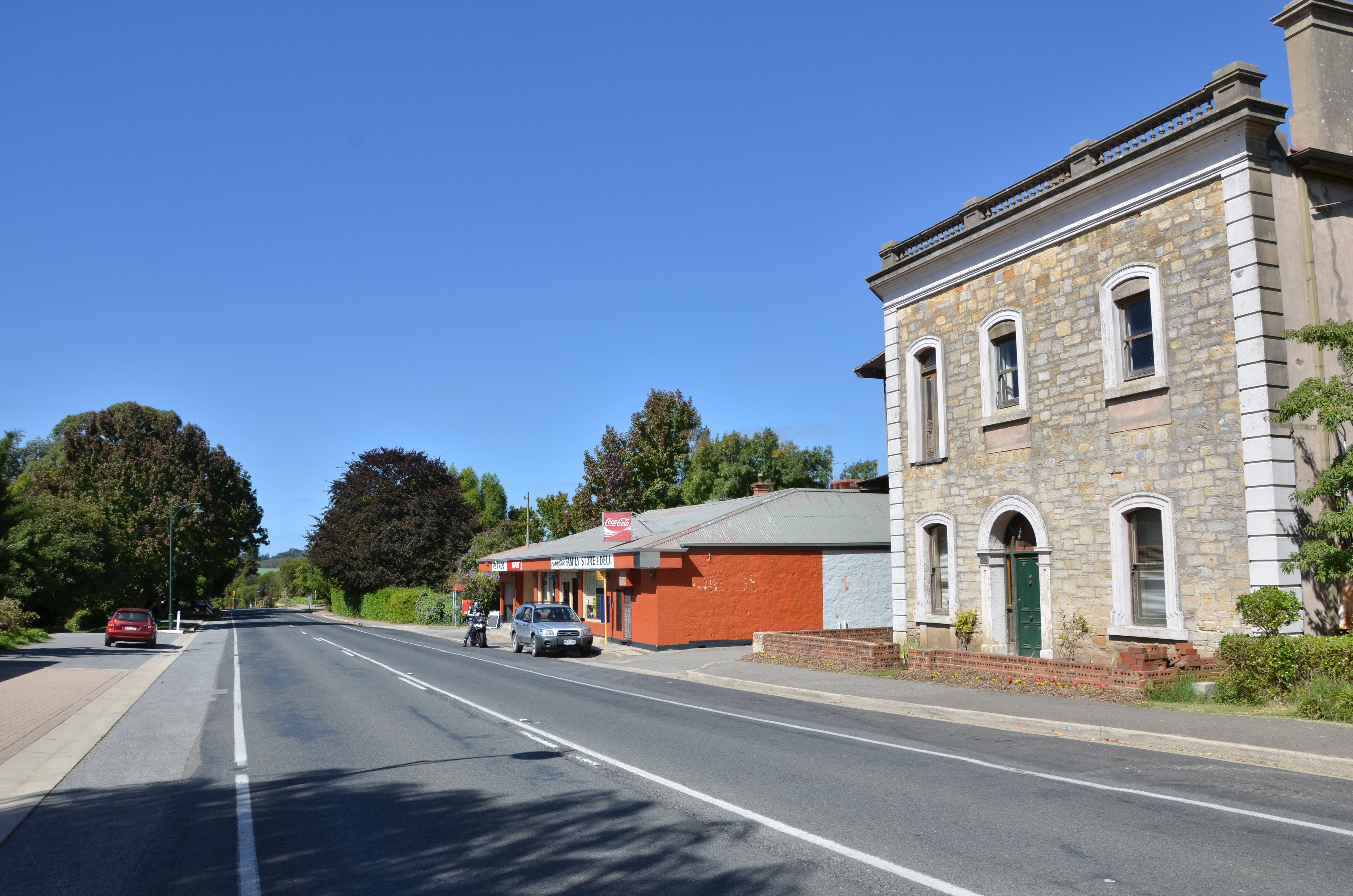 Main street of Summertown, South Australia. Summertown Family Store and Post Office is in centre-frame, and the former Mt Lofty Hotel is at right of frame.